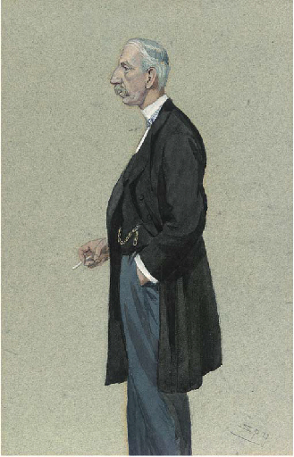 Caricature of Arthur Edward Guest. Caption read "A South Western Director". Accompanying biographical comment in Vanity Fair read "He can hit birds, he can fish.... He is a cheery, genial soul, and an excellent host, who can tell an after-dinner story. He never raced, and he only plays cards for love".